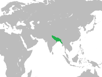 Map of the Sultanate of Bengal in Asia